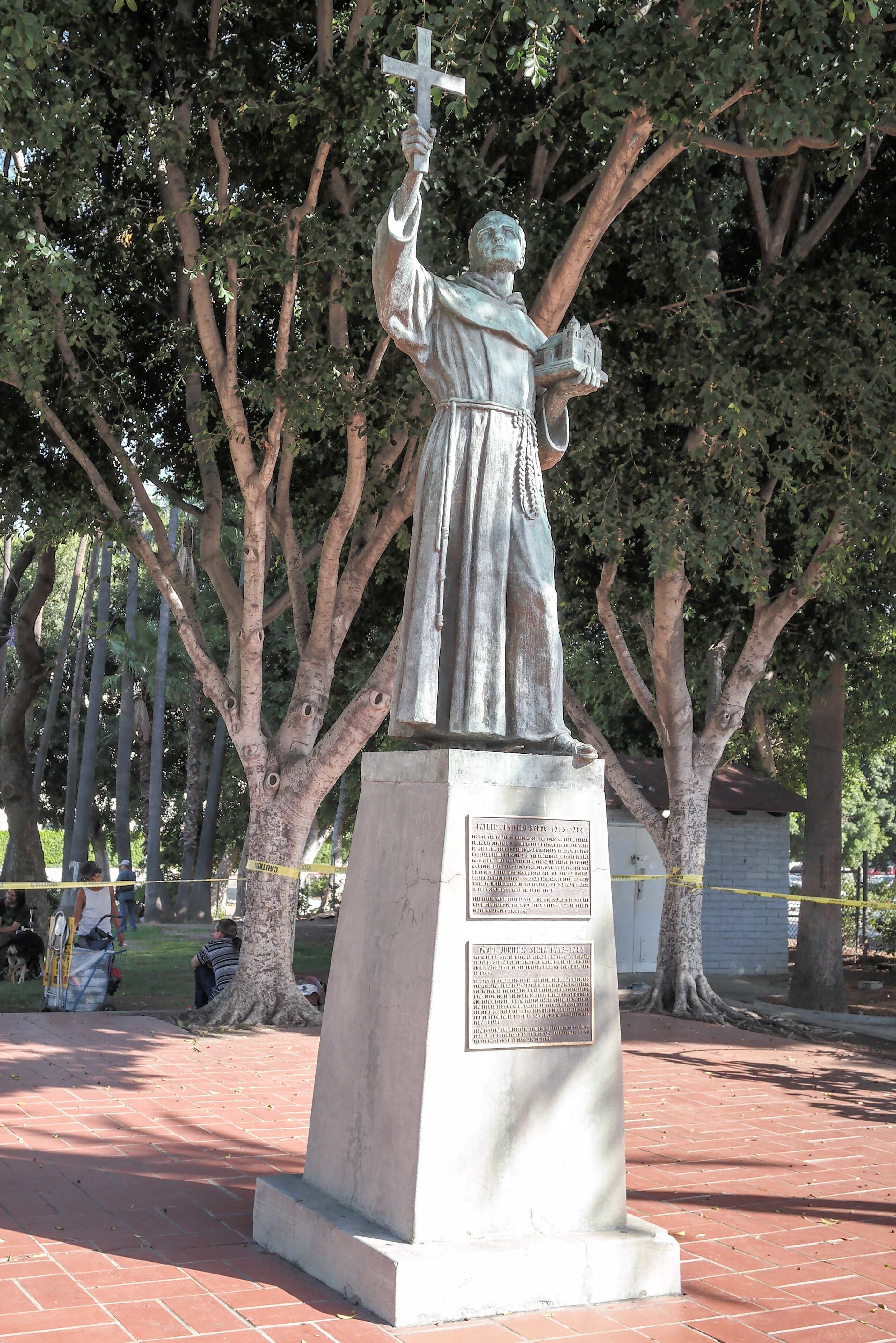 Father Junipero Serra in the Los Angeles Plaza Historic District